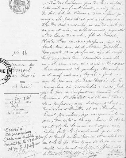 Birth entry of René Henri Ronsil (1908-1956)